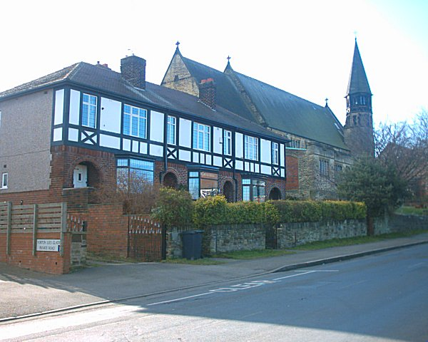 View southwest along part of Norton Lees Lane, Norton Lees, Sheffield, South Yorkshire. The building beyond the row of houses is St Paul's parish church.